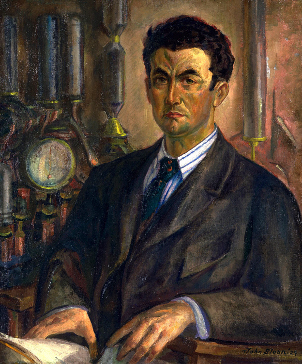 Edgar Varèse - John French Sloan